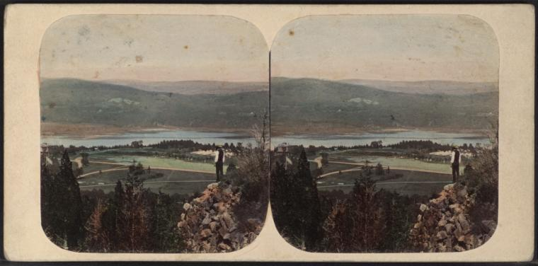 Digital ID: G91F051_014F. E. & H.T. Anthony (Firm) -- Photographer. [1860?-1875?] Source: Robert N. Dennis collection of stereoscopic views. / United States. / States / New York / Beauties of the Hudson. ( Repository: The New York Public Library. Photography Collection, Miriam and Ira D. Wallach Division of Art, Prints and Photographs. See more information about and others at Persistent URL: Rights Info: No known copyright restrictions; may be subject to third party rights (for more information